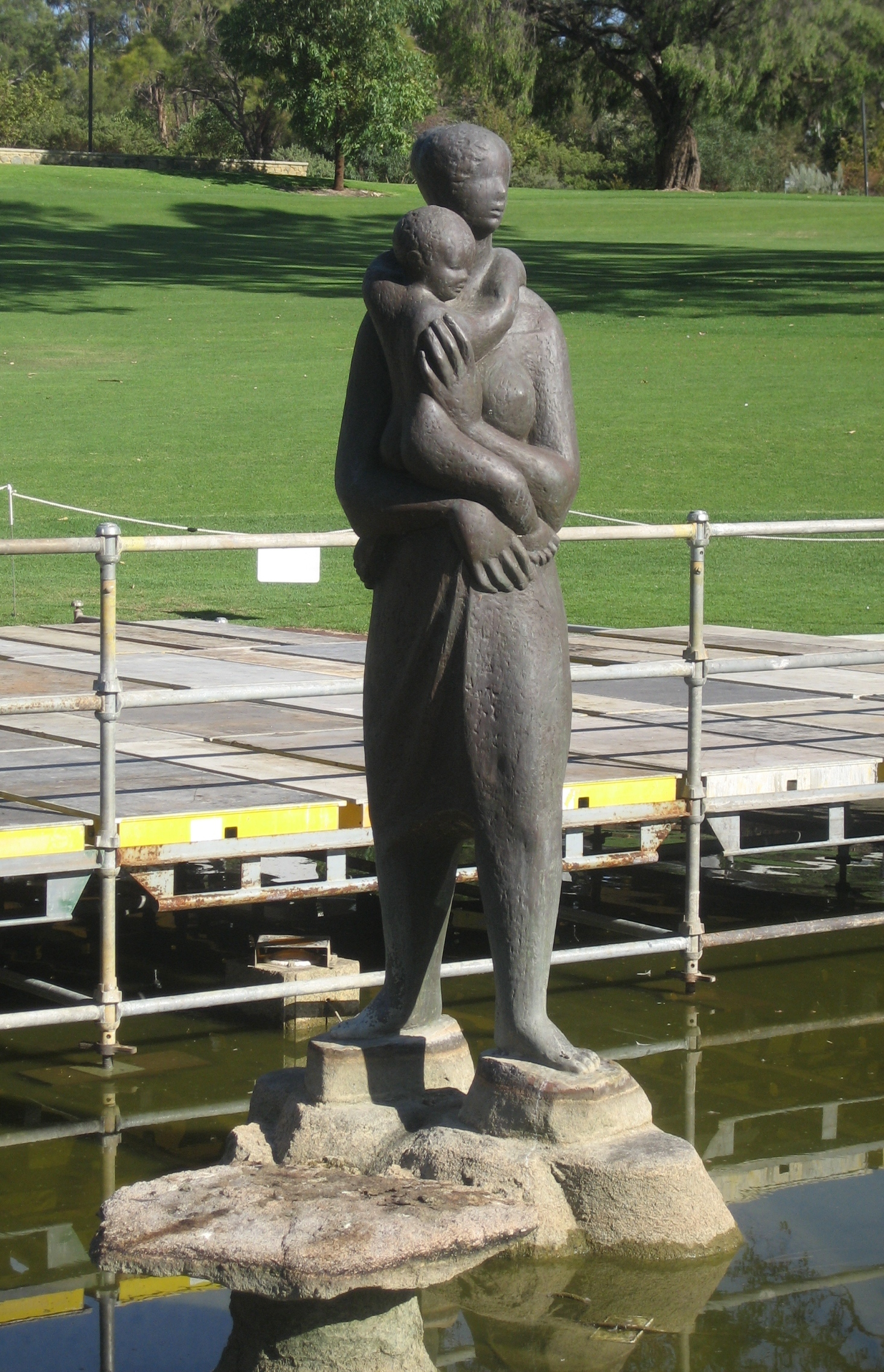 Public art - Pioneer Womens Memorial, Kings Park Perth